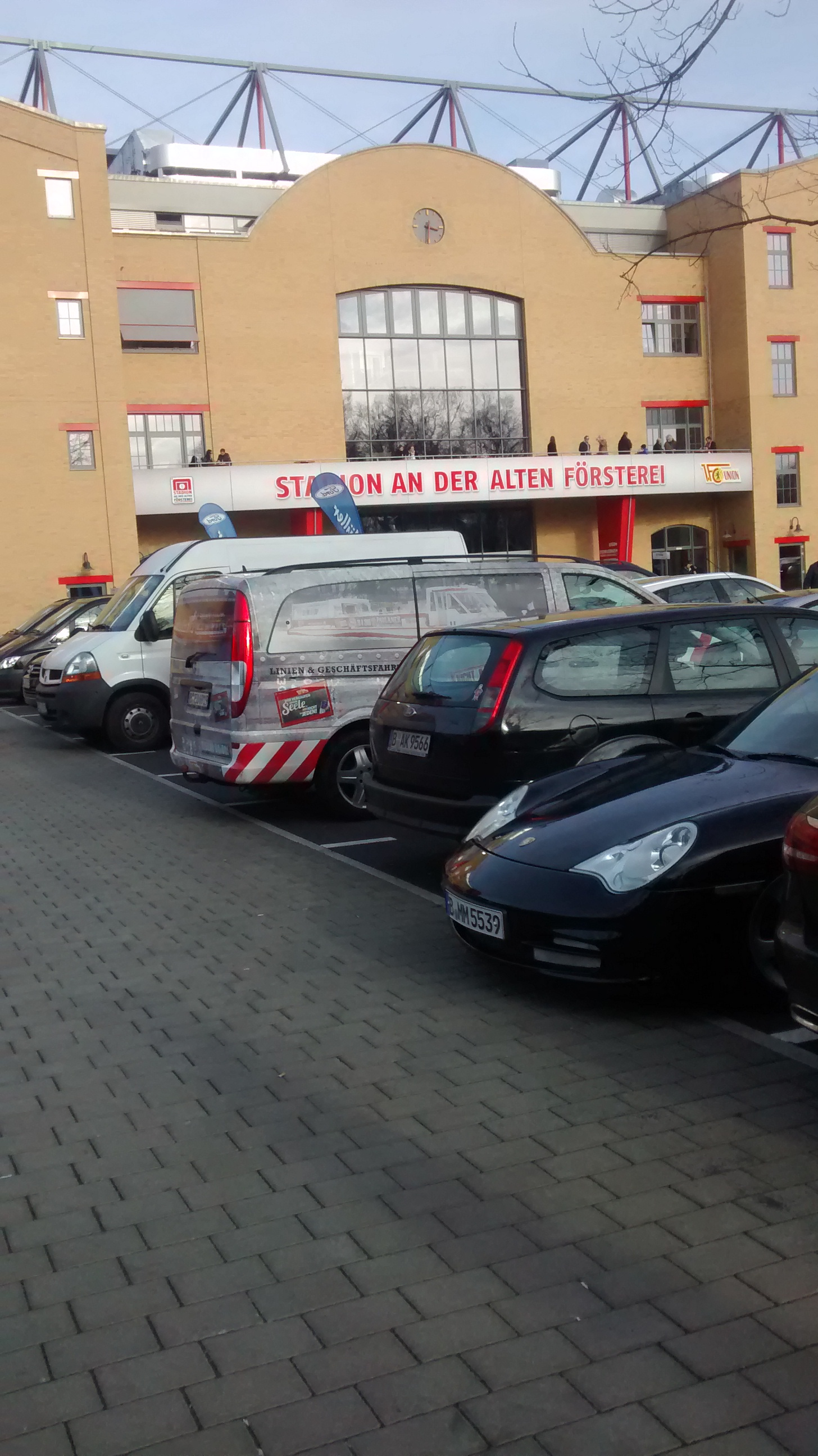 Rear of the Haupttribüne at the Alte forsterei, Berlin